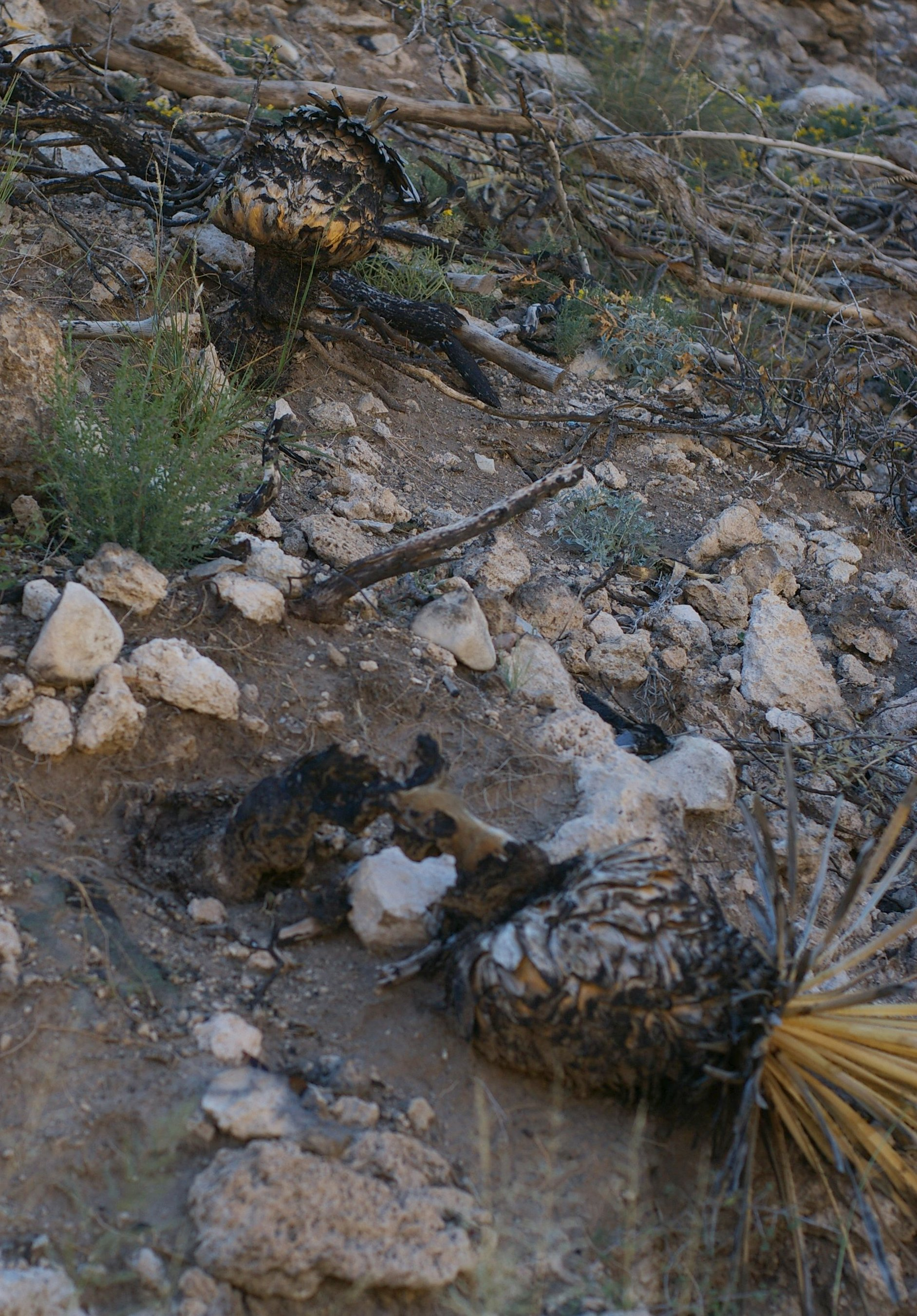 Yuccas that were burned in the wildfire at Sitting Bull Falls, Lincoln National Forest, New Mexico